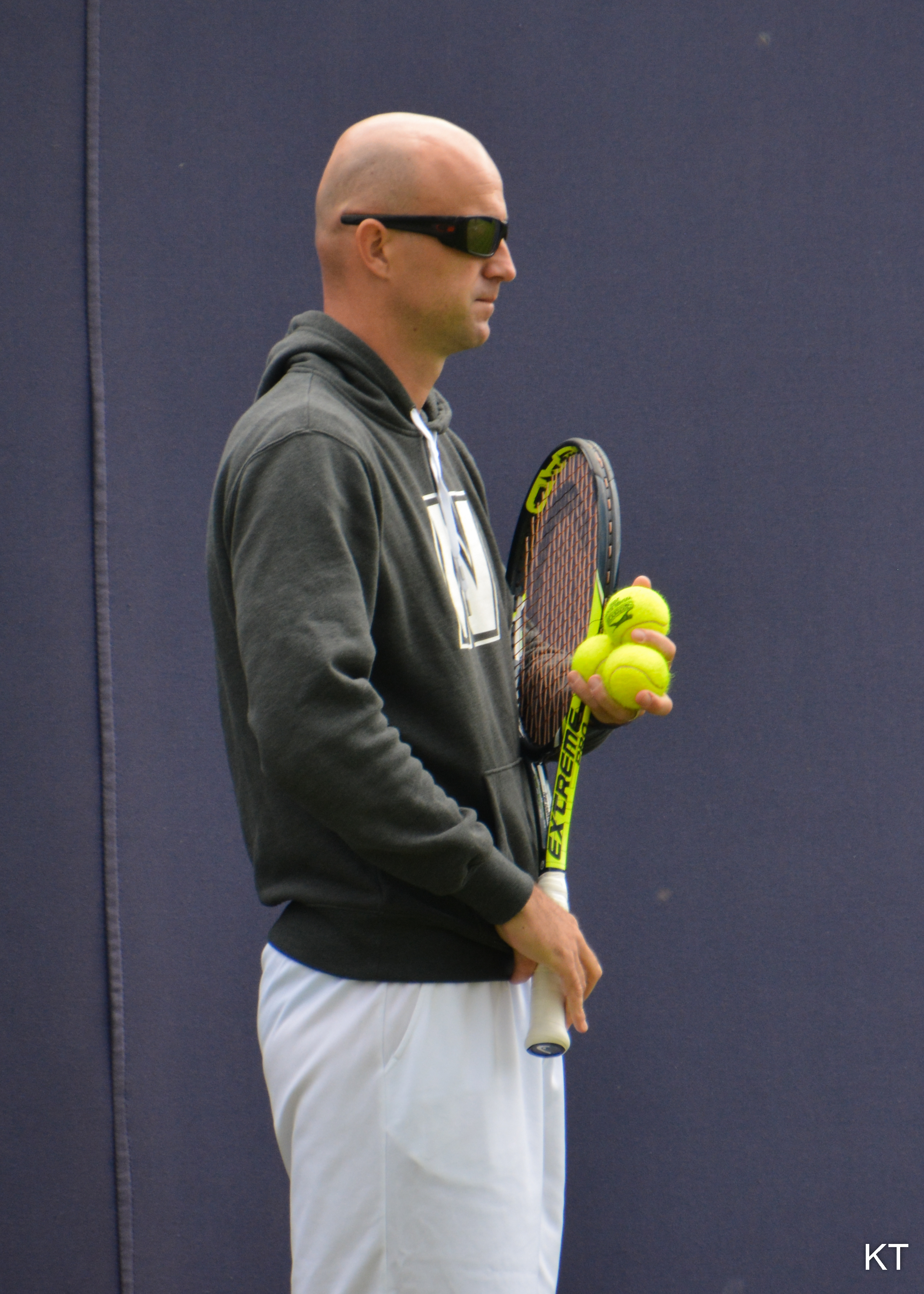 Working with Milos Raonic on the practice court. Aegon Championships, Queen's Club, June 2015.